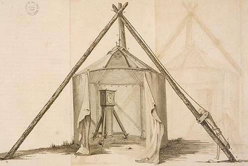 The original observation,made in the course of a voyage toward thw South Pole, by William Wales and Willam Bayley